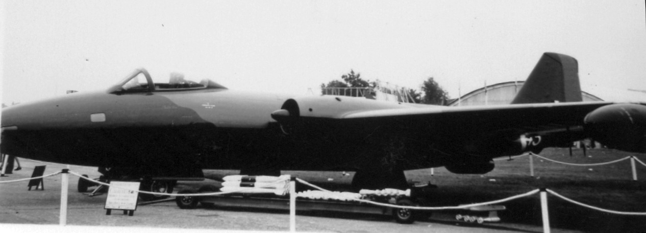 English Electric Canberra B(I) 8 XM245 at the SBAC Show, Farnborough 13 September 1958